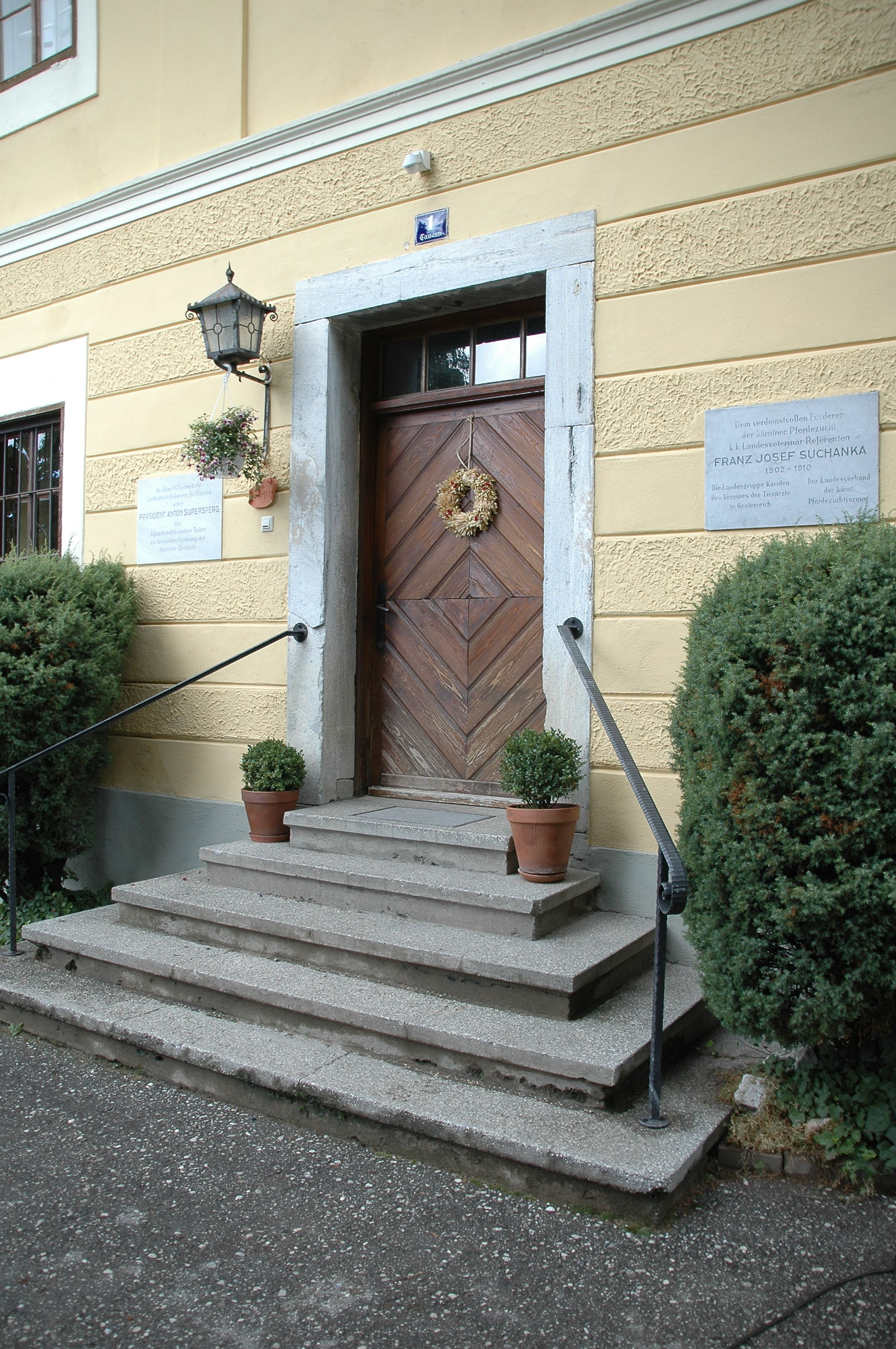 Entrance of farmhouse in Tauern, Ossiach, Carinthia, Austria